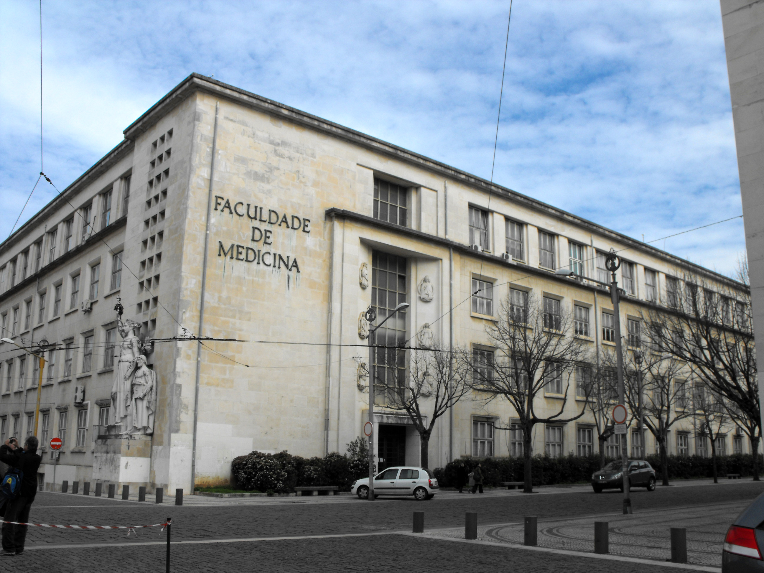 This file was uploaded for Wiki Loves Monuments in Portugal with the unique identifier 327773.